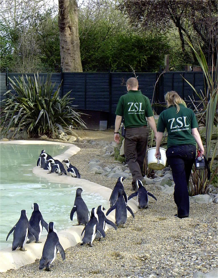 Feeding time for the penguins at London Zoo.